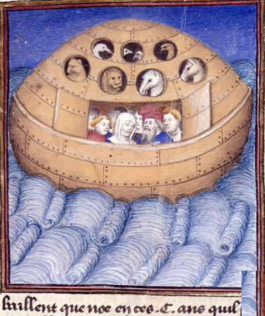 15 British library Noah s ark Description: (Miniature only) Noah's ark shown as a round, domed vessel, with birds and animals peering out of the portholes, with Noah and his family staring through a large opening on the main deck below. Title of Work: Les Croniques de Burgues. Author: Hinojosa, Gonzales d'; Coulain, Jean, translator Illustrator: - Production: France; before 1407 El arca de Noé en Les Croniques de Burgues (1373-1407), al estilo de la biblioteca del Duque de Berry (Juan I de Berry -Category:John, Duke of Berry-). El texto latino, original del obispo de Burgos Gonzalo o González de Hinojosa (1313-1327), fue traducido al francés por el teólogo carmelita Jean Coulain (entre 1370 y 1373 -murió en 1403-), y comprado en 1407 por el Duque de Berry por 160 escudos de oro. Ficha en British Library.